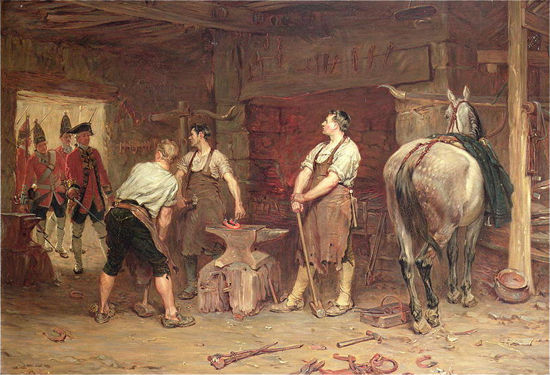 After Culloden- Rebel Hunting, an oil panting by John Seymour Lucas. The painting depicts the rigorous search conducted by Government troops for Jacobite supporters in the days that followed the Battle of Culloden.